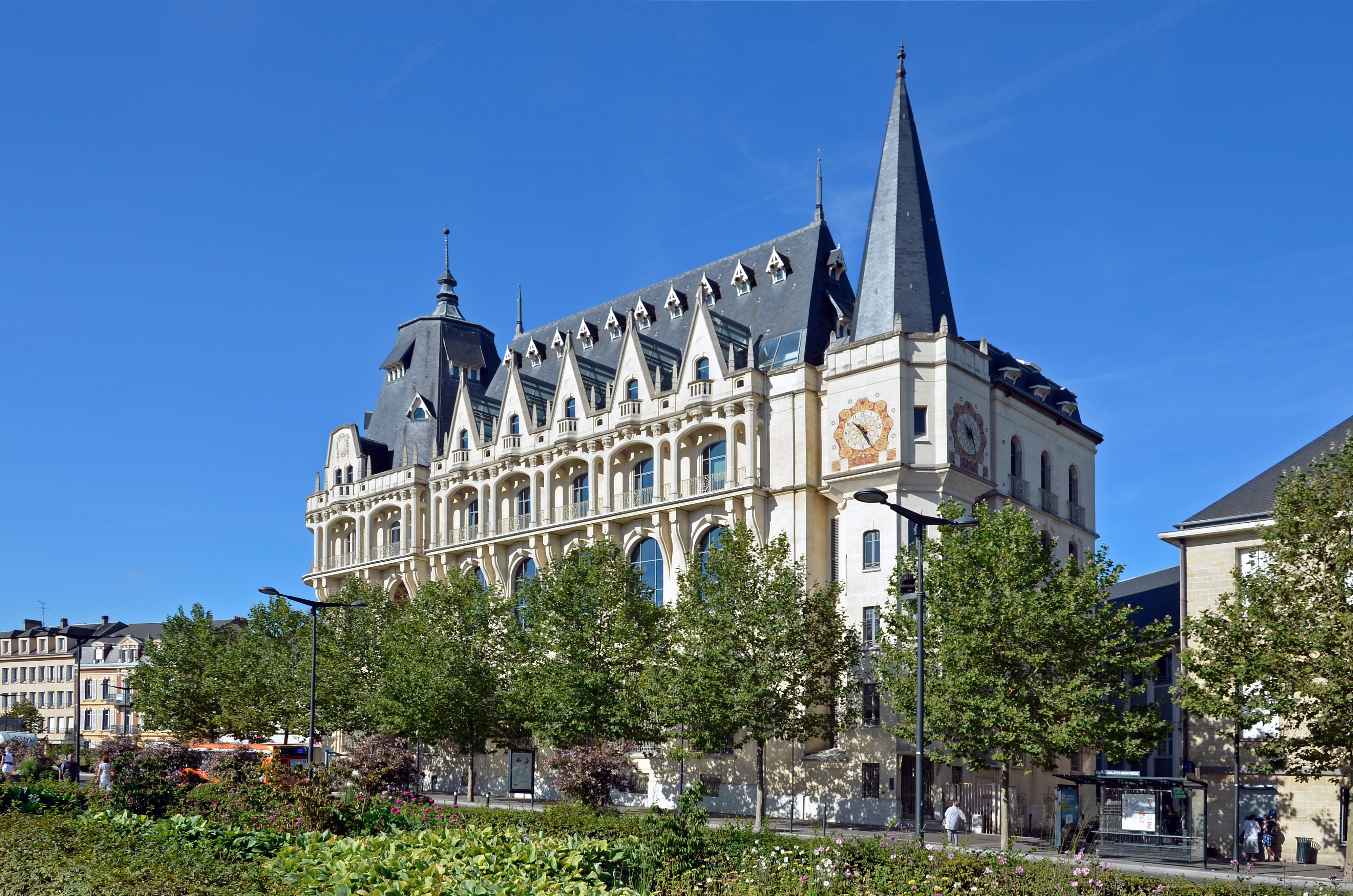 Former post office, now a library - Chartres, Eure-et-Loir, France .